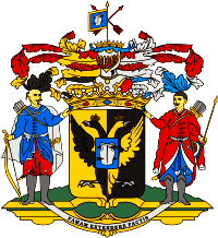 The Armorial of Russia. Coat of arms of Rozumovski family